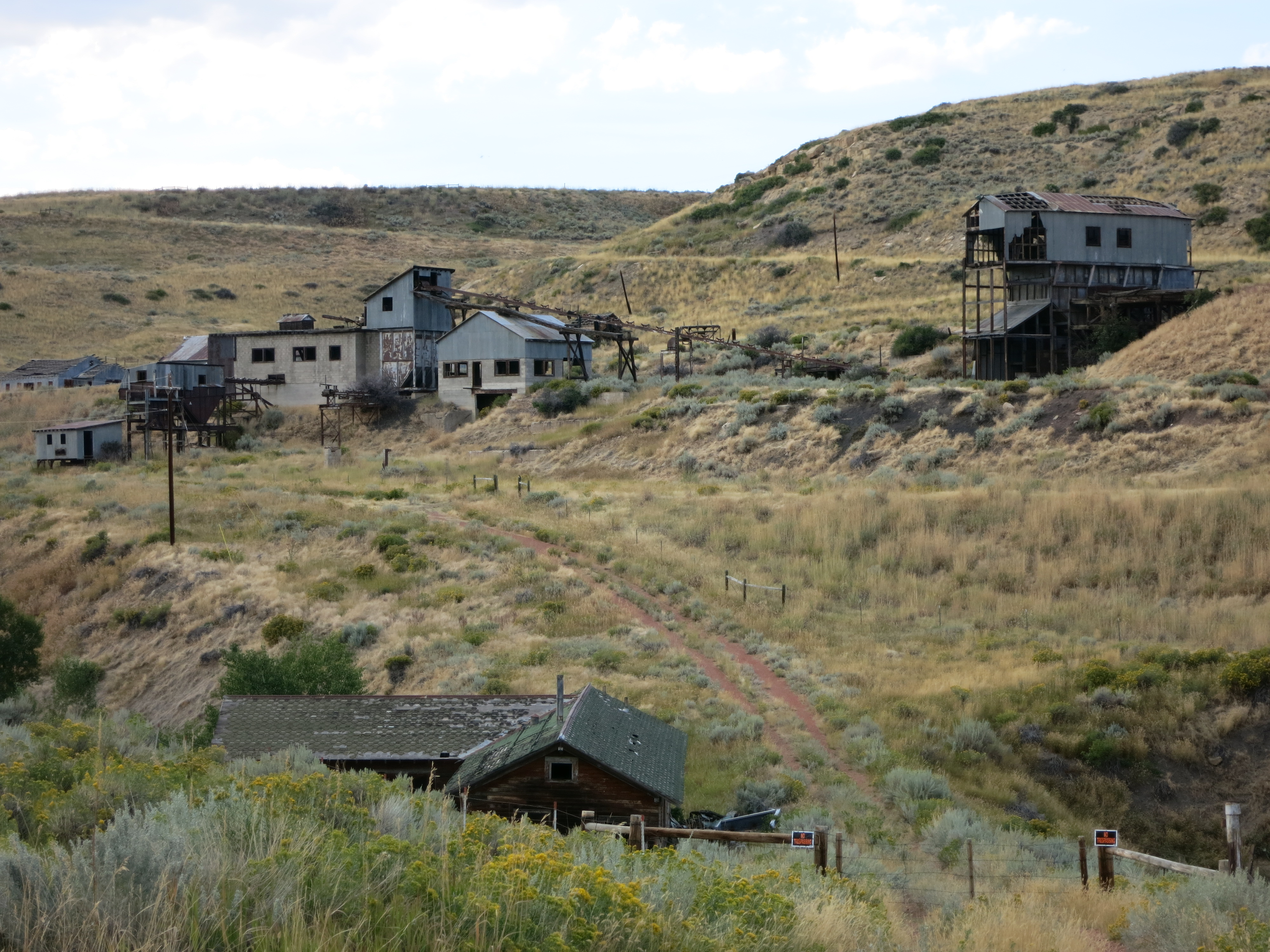 Smith Mine Historic District, Montana Highway 308 Bearcreek